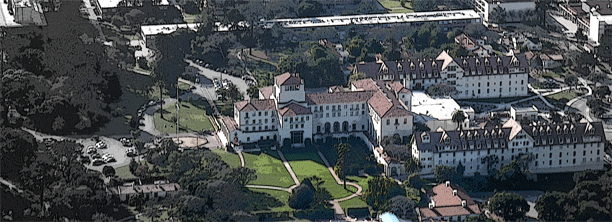 Overhead view of the main bldgs of NPS, taken from a Zeppelin over Monterey, CA by the Director of the Remote Sensing Center (RSC). Artistic alterations done by the Operations Director of the RSC.